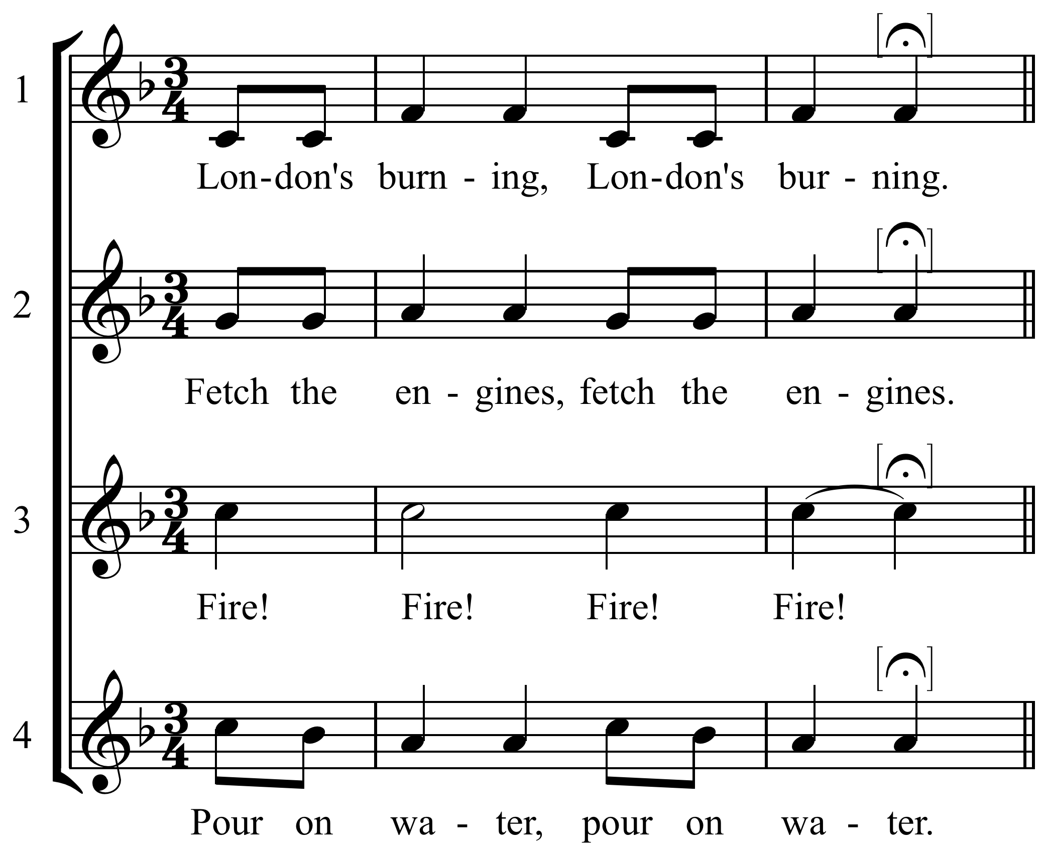 London's Burning four voice round.